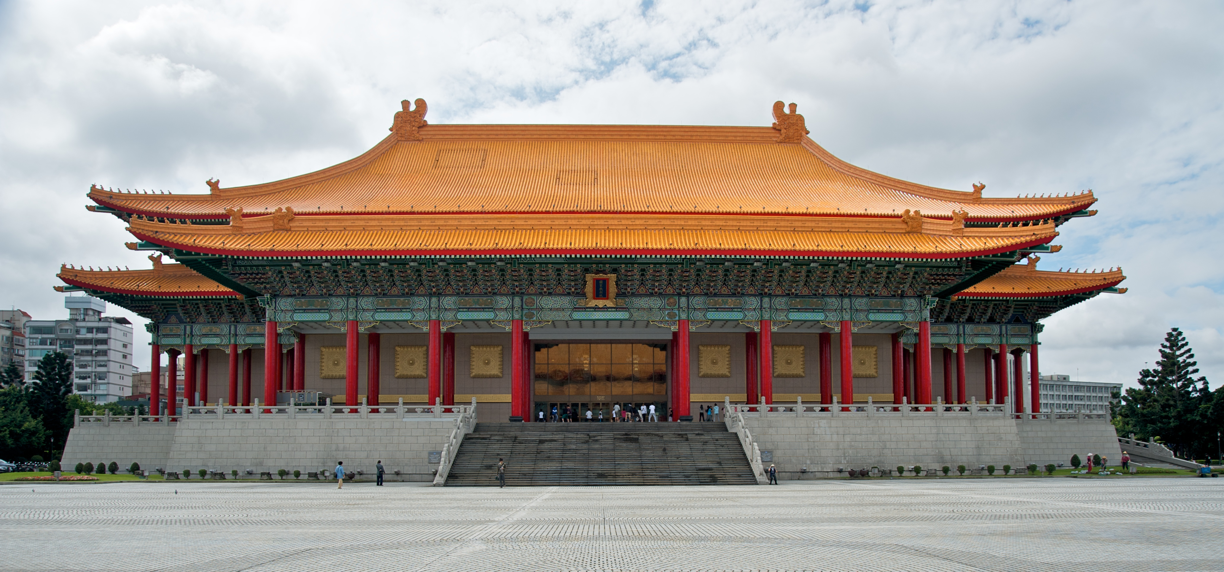 National Theater at the Liberty Square in Taipei, Taiwan